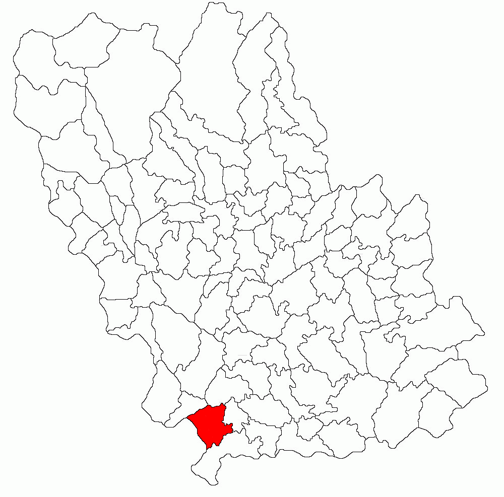 Locator map of Șirna Commune, Prahova County, Romania